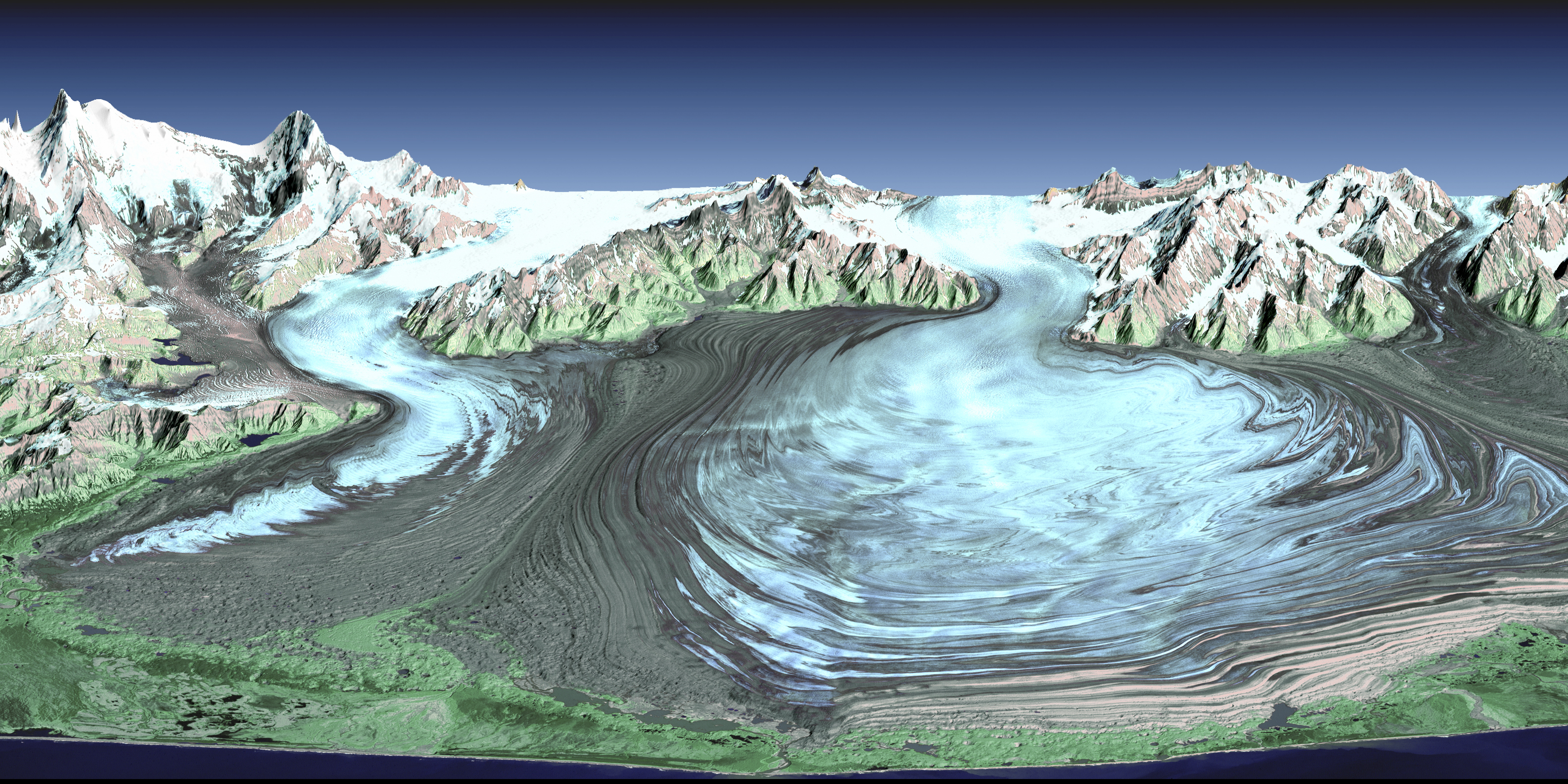 Malaspina Glacier in southeastern Alaska is considered the classic example of a piedmont glacier. Piedmont glaciers occur where valley glaciers exit a mountain range onto broad lowlands, are no longer laterally confined, and spread to become wide lobes. Malaspina Glacier is actually a compound glacier, formed by the merger of several valley glaciers, the most prominent of which seen here are Agassiz Glacier (left) and Seward Glacier (right). In total, Malaspina Glacier is up to 65 kilometers (40 miles) wide and extends up to 45 kilometers (28 miles) from the mountain front nearly to the sea. This perspective view was created from a Landsat satellite image and an elevation model generated by the Shuttle Radar Topography Mission (SRTM). Landsat views both visible and infrared light, which have been combined here into a color composite that generally shows glacial ice in light blue, snow in white, vegetation in green, bare rock in grays and tans, and the ocean (foreground) in dark blue. The back (northern) edge of the data set forms a false horizon that meets a false sky. Glaciers erode rocks, carry them down slope, and deposit them at the edge of the melting ice, typically in elongated piles called moraines. The moraine patterns at Malaspina Glacier are quite spectacular in that they have huge contortions that result from the glacier crinkling as it gets pushed from behind by the faster-moving valley glaciers. Glaciers are sensitive indicators of climatic change. They can grow and thicken with increasing snowfall and/or decreased melting. Conversely, they can retreat and thin if snowfall decreases and/or atmospheric temperatures rise and cause increased melting. Landsat imaging has been an excellent tool for mapping the changing geographic extent of glaciers since 1972. The elevation measurements taken by SRTM in February 2000 now provide a near-global baseline against which future non-polar region glacial thinning or thickening can be assessed.